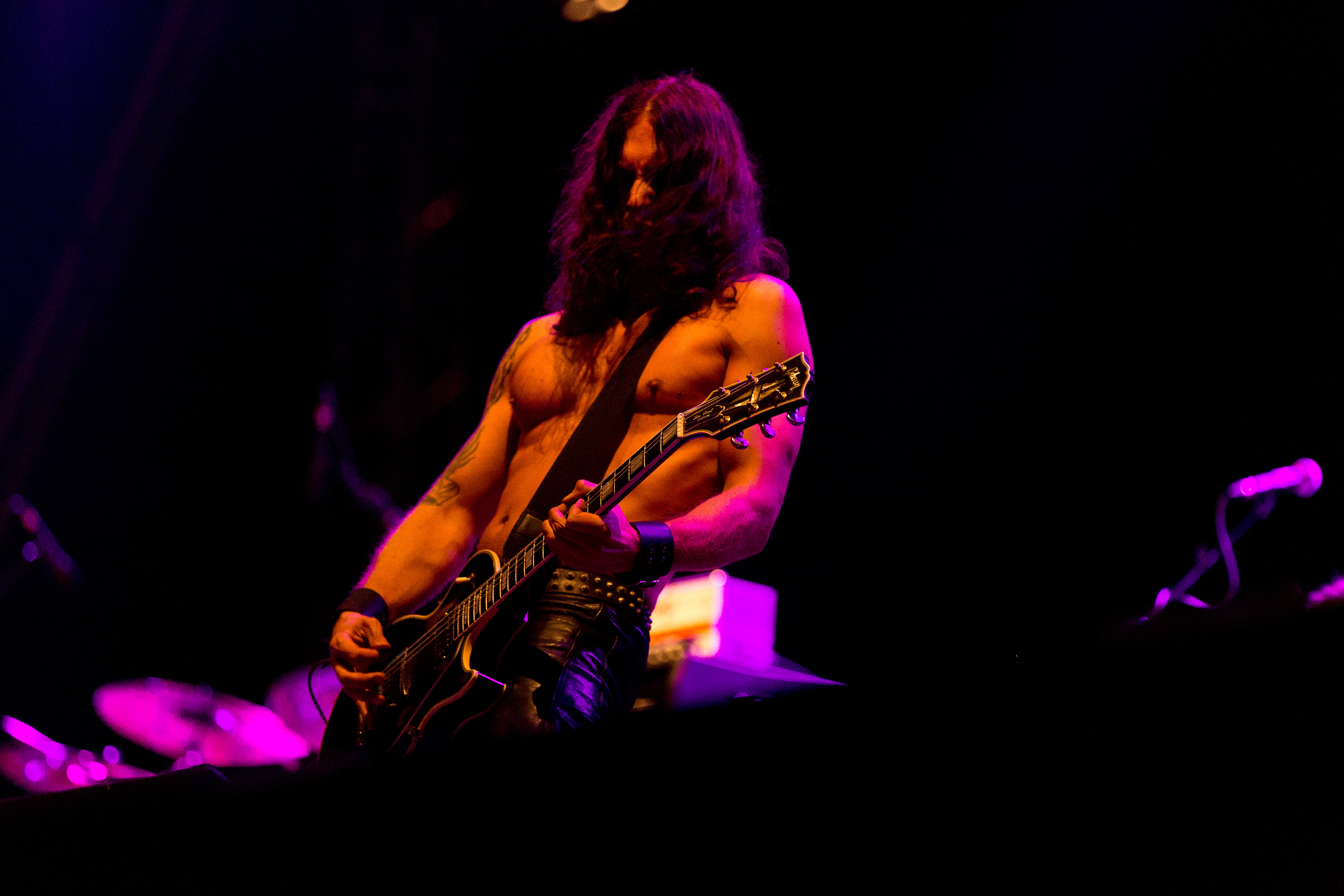 The Norwegian viking/progressive metal band Enslaved at the Rockharz Open Air 2016 in Ballenstedt/Germany.